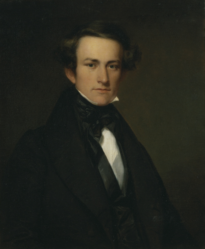 Portrait of John W. Casilear. 76.2 x 62.2 cm. Oil on canvas.